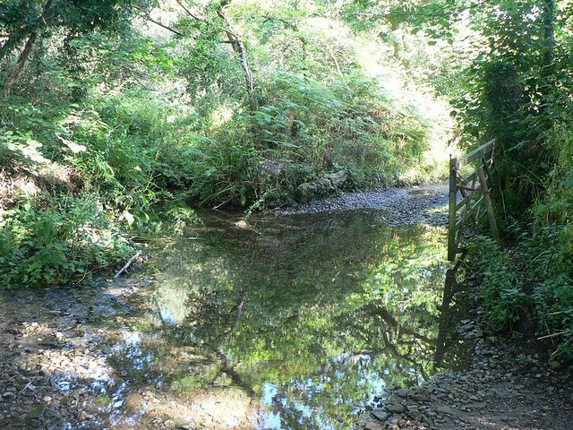 Ford by Kirthen Wood Haven in Cornwall. The spelling of Kirthen/Kerthen is variable! In this case Kirthen is correct according to a sign at the end of the lane. The stream forms the boundary between the civil parishes of Crowan and St Erth.